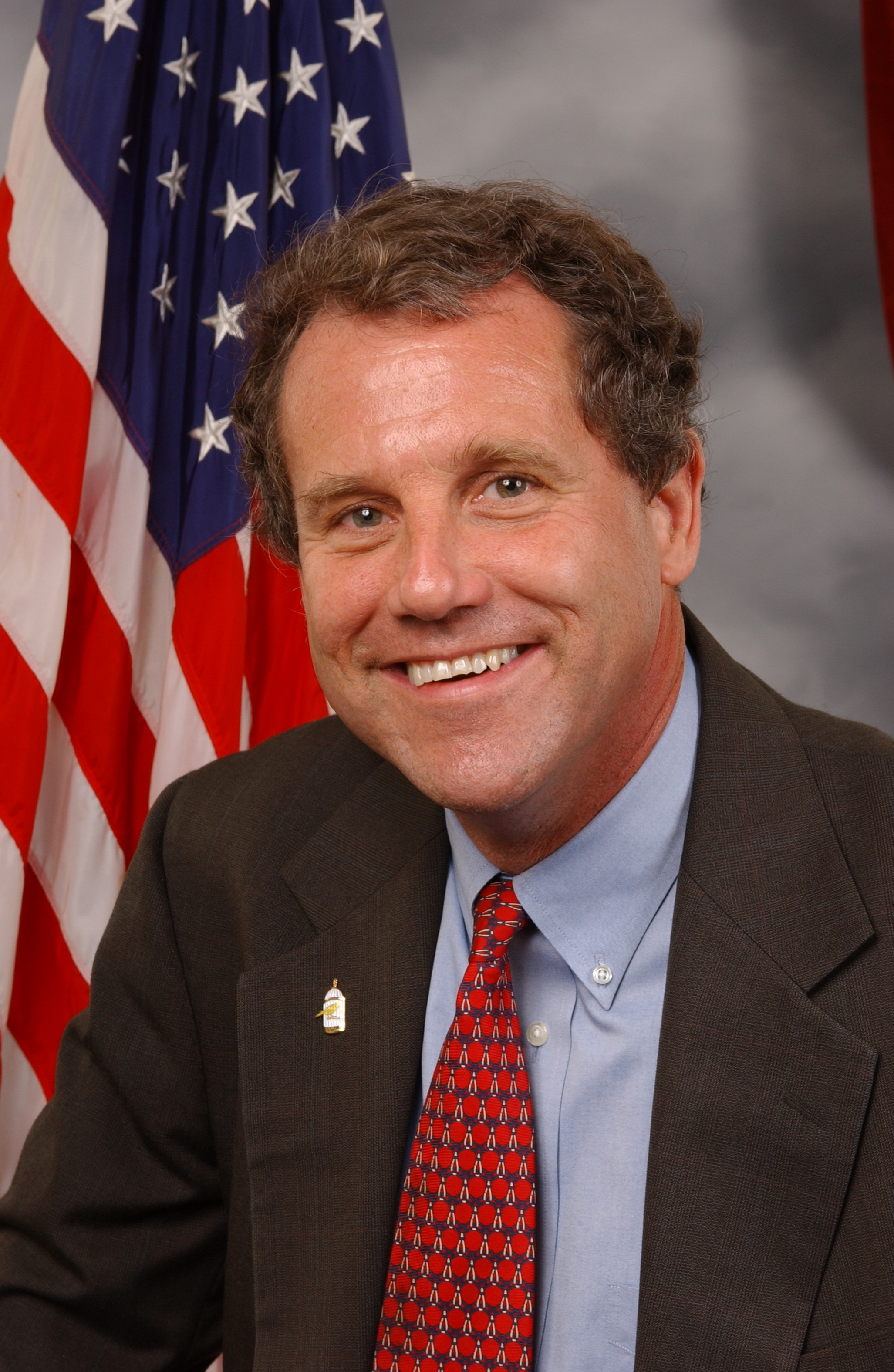 Sherrod Brown, U.S. senator.